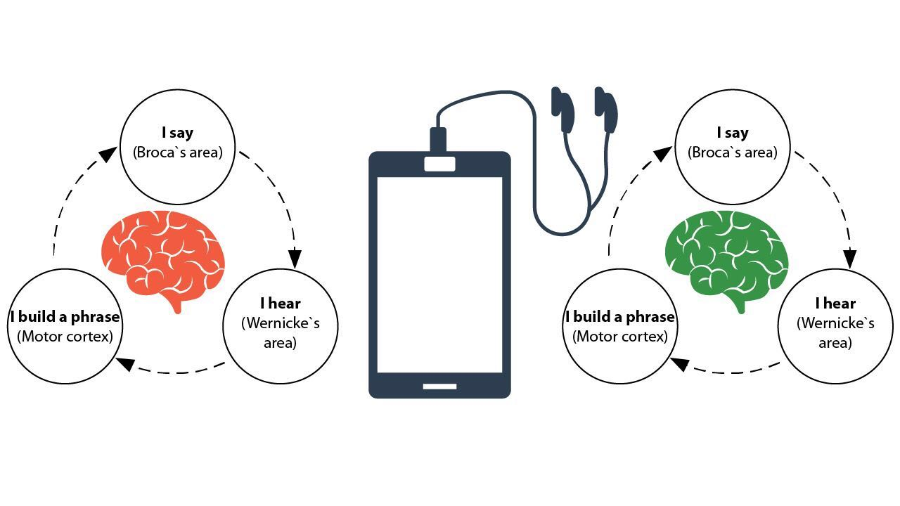 Stuttering treatment - mobile application